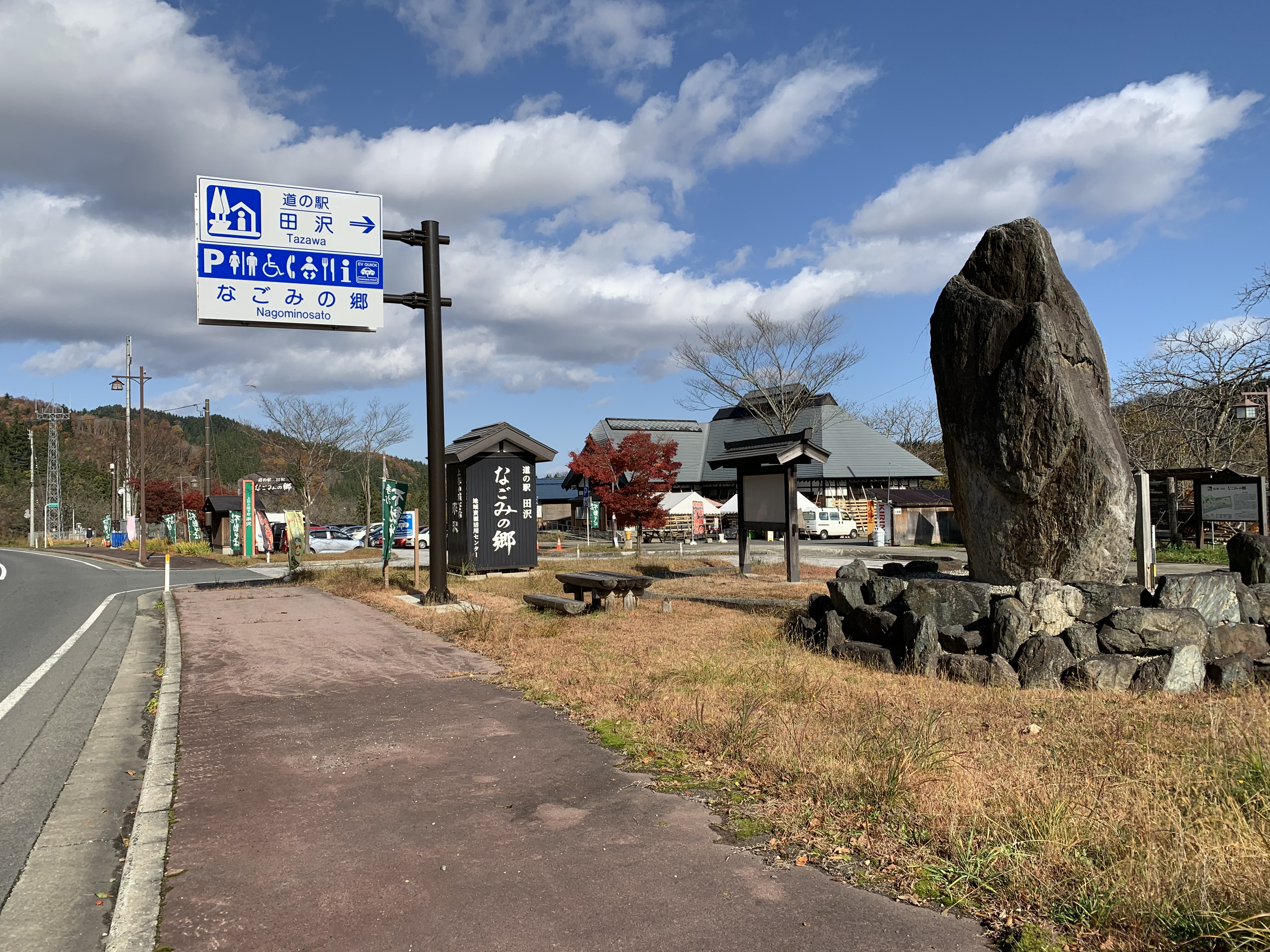 Tazawa, Michi no Eki (Roadside Station), Yamagata, Japan. Took photo in November 2019.